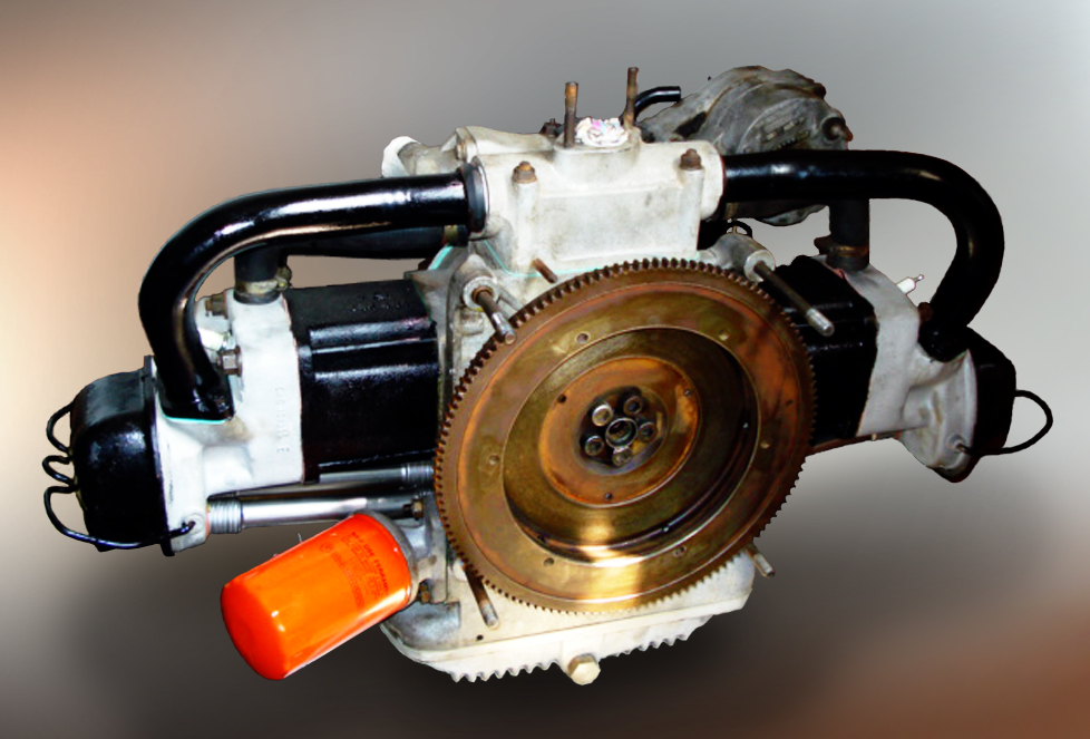 800cc "ENERTRON" engine from a 1991 Gurgel BR800. This flat-two unit is essentially a half of a VW-boxer engine, although it is water-cooled in Gurgel's application.